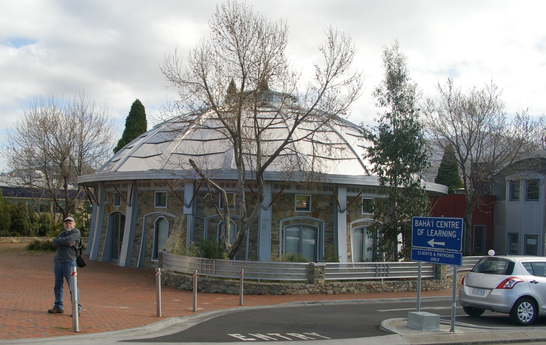 Baha'i Centre of Learning, Hobart, Tasmania, Australia.